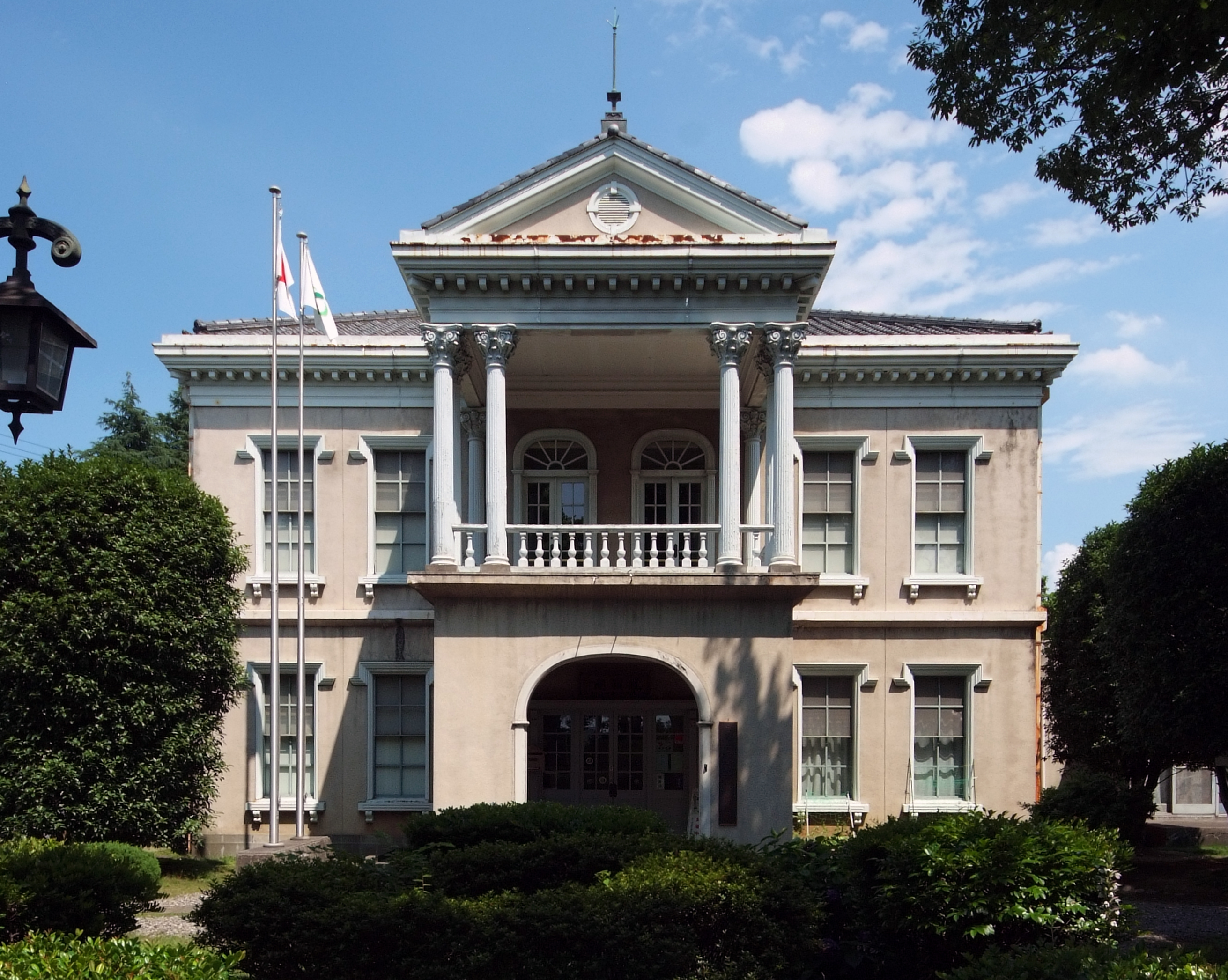 Saitama City Urawa Museum. Located in Midori-ku, Saitama City, Saitama Pref., Japan. Built in 1972. The Hōshōkaku building (1878—1959) of Saitama Prefectural Normal School (or Teacher Training College) was its model.